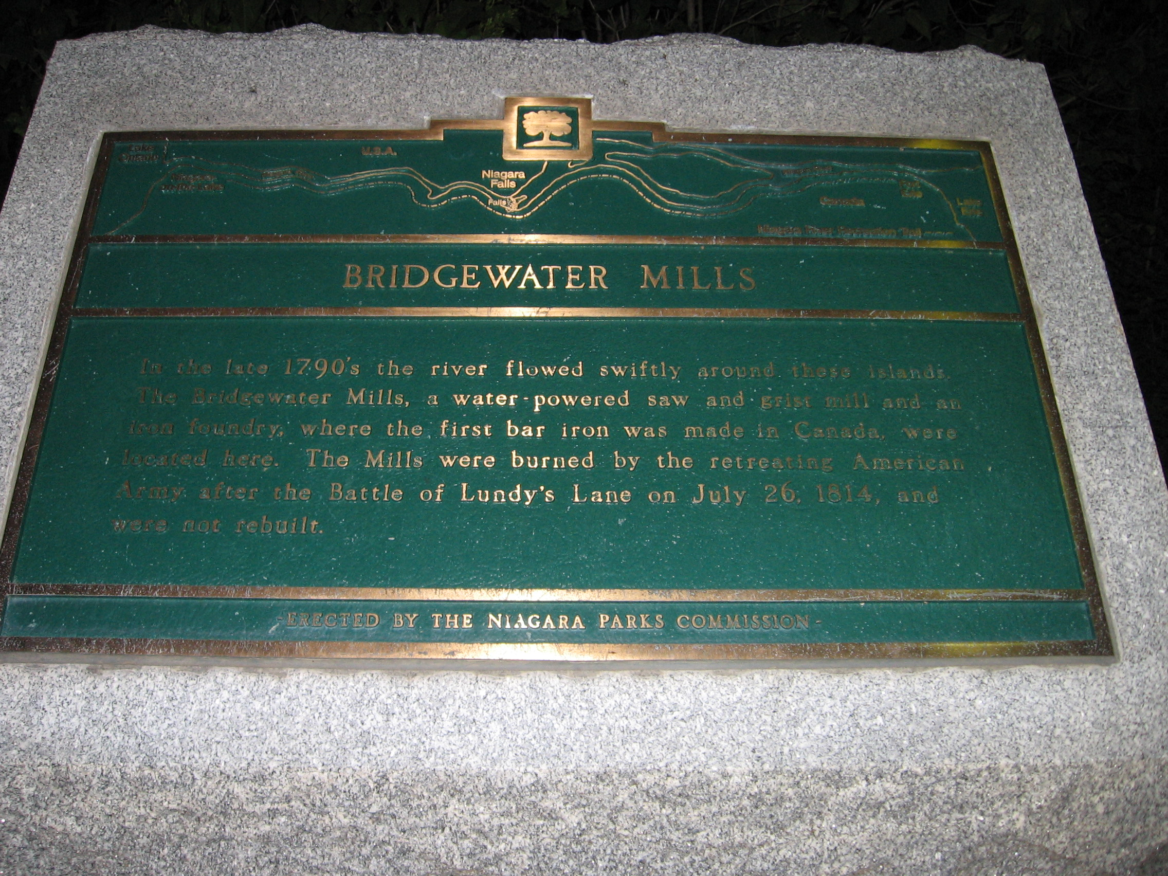 Image created and copyright held by Yoho2001 Toronto, ON. If used, please attribute the image as such.